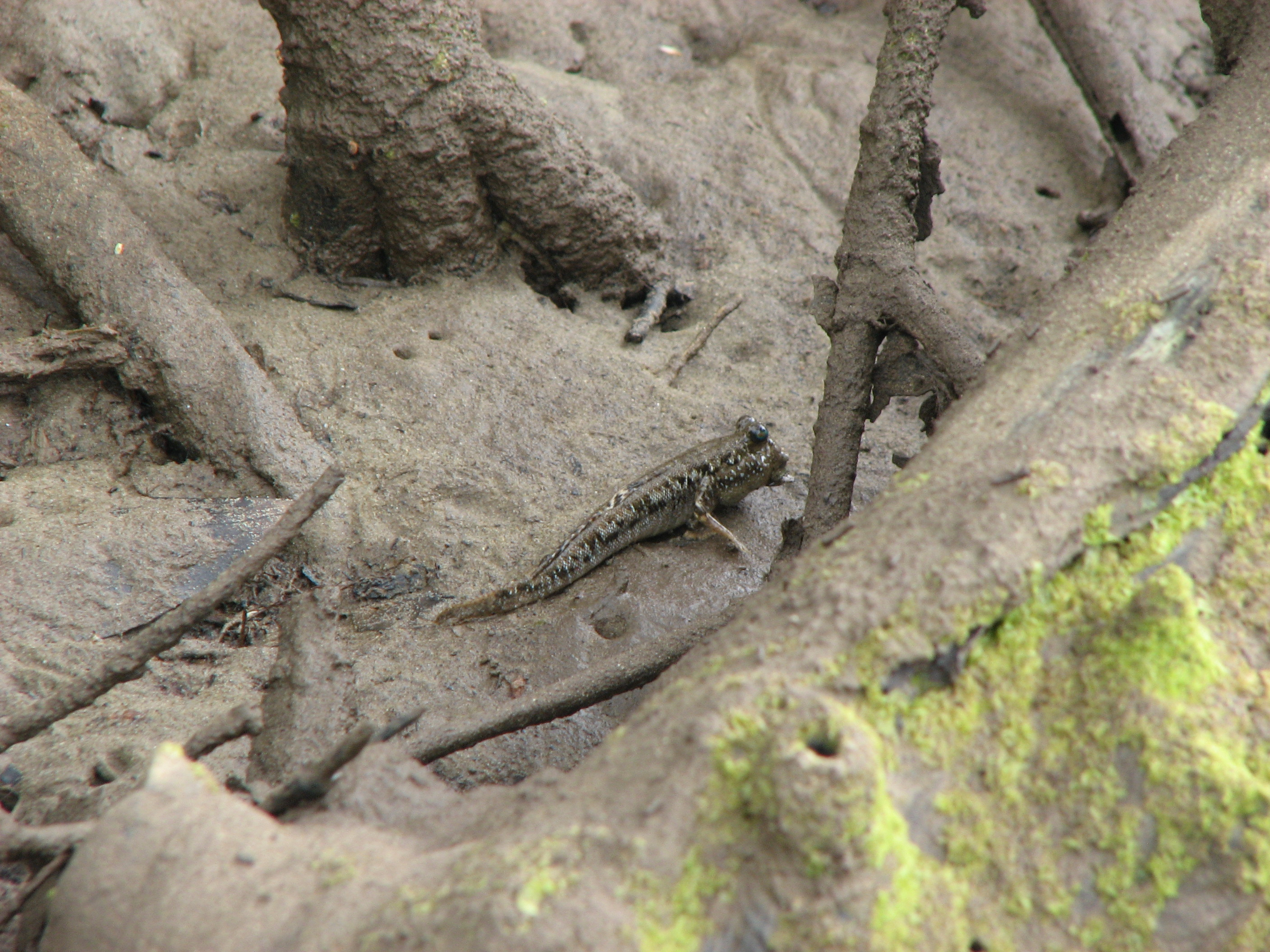 Periophthalmus argentilineatus at Iriomote is. Okinawa, Japan